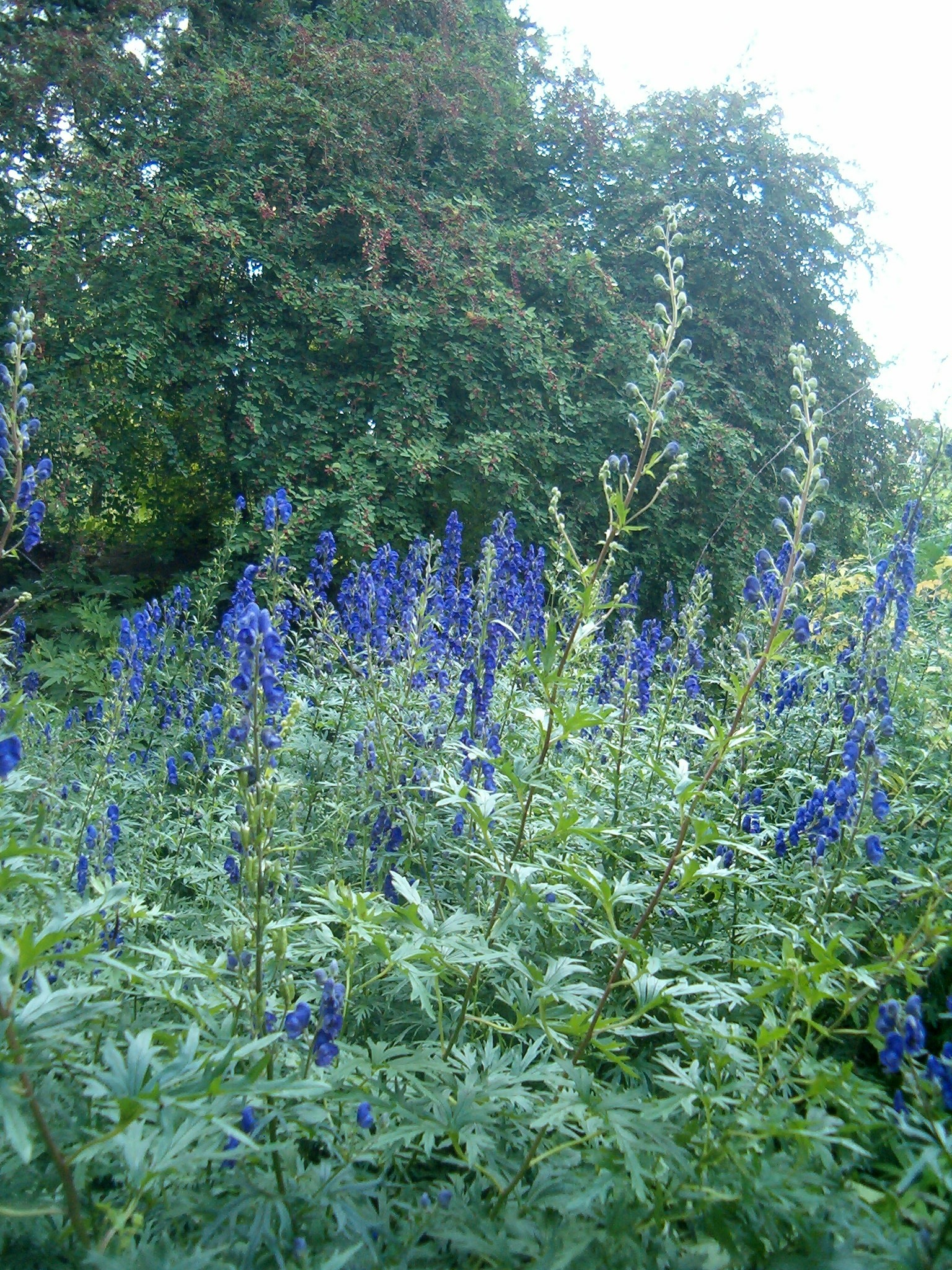 At Botanical Gardens Berlin-Dahlem Species Aconitum carmichaelii